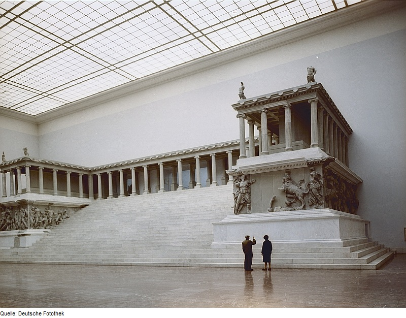 Original image description from the Deutsche Fotothek Berlin. Pergamonmuseum, Pergamonaltar